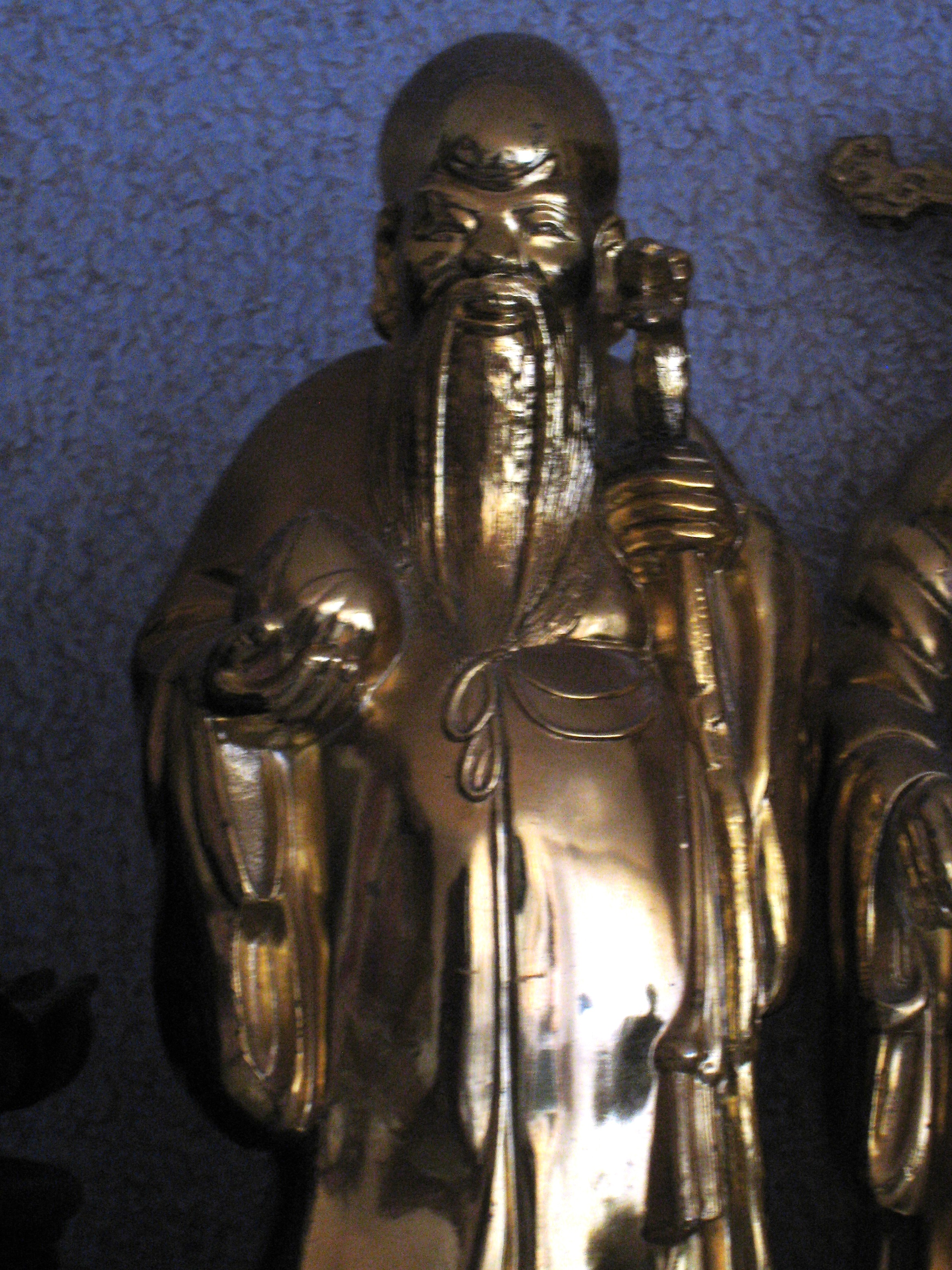 metal statue of Shou Xing